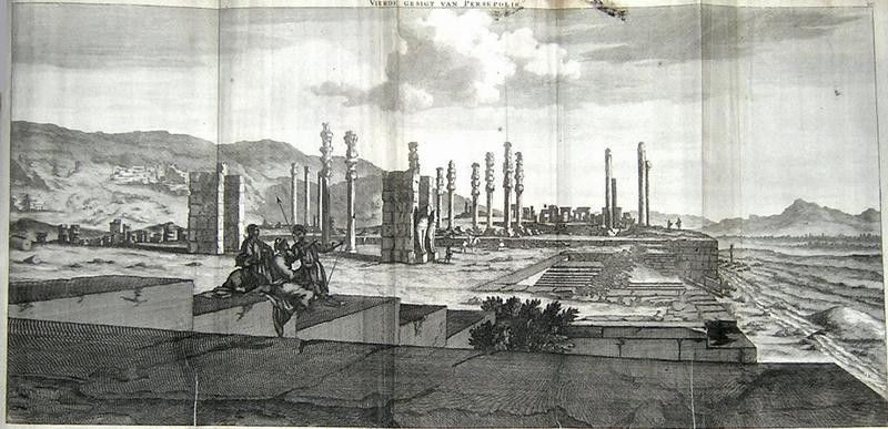 Cornelis de Bruijn was a Dutch traveller and painter. In 1704 he visited Persepolis and made this sketch.